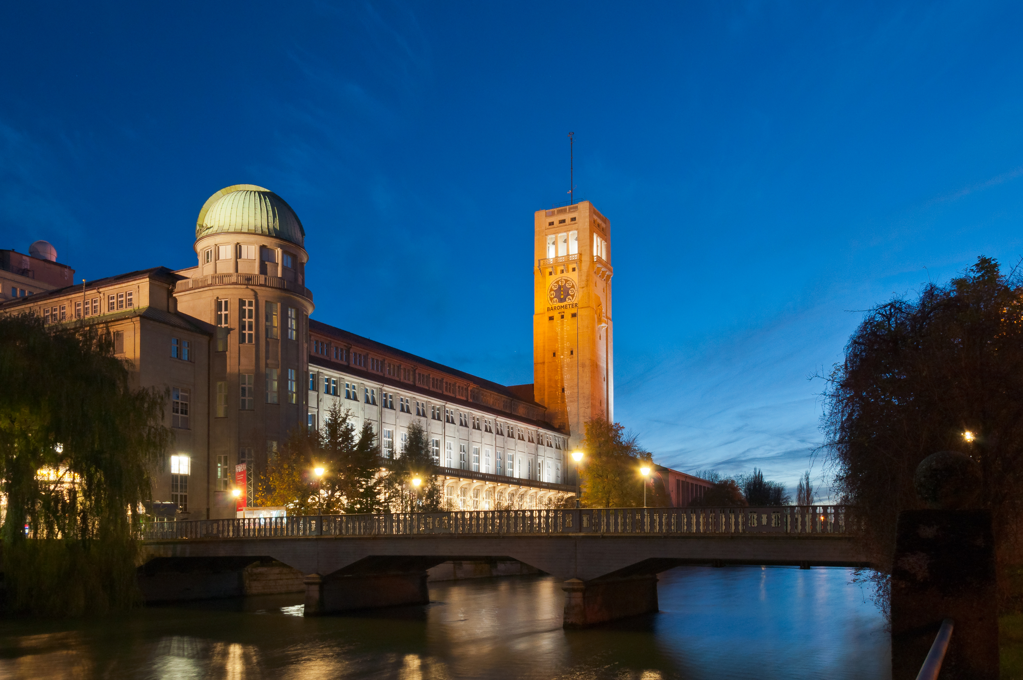 Central building of the Deutsches Museum (German Museum), Museumsinsel, Munich, Germany.